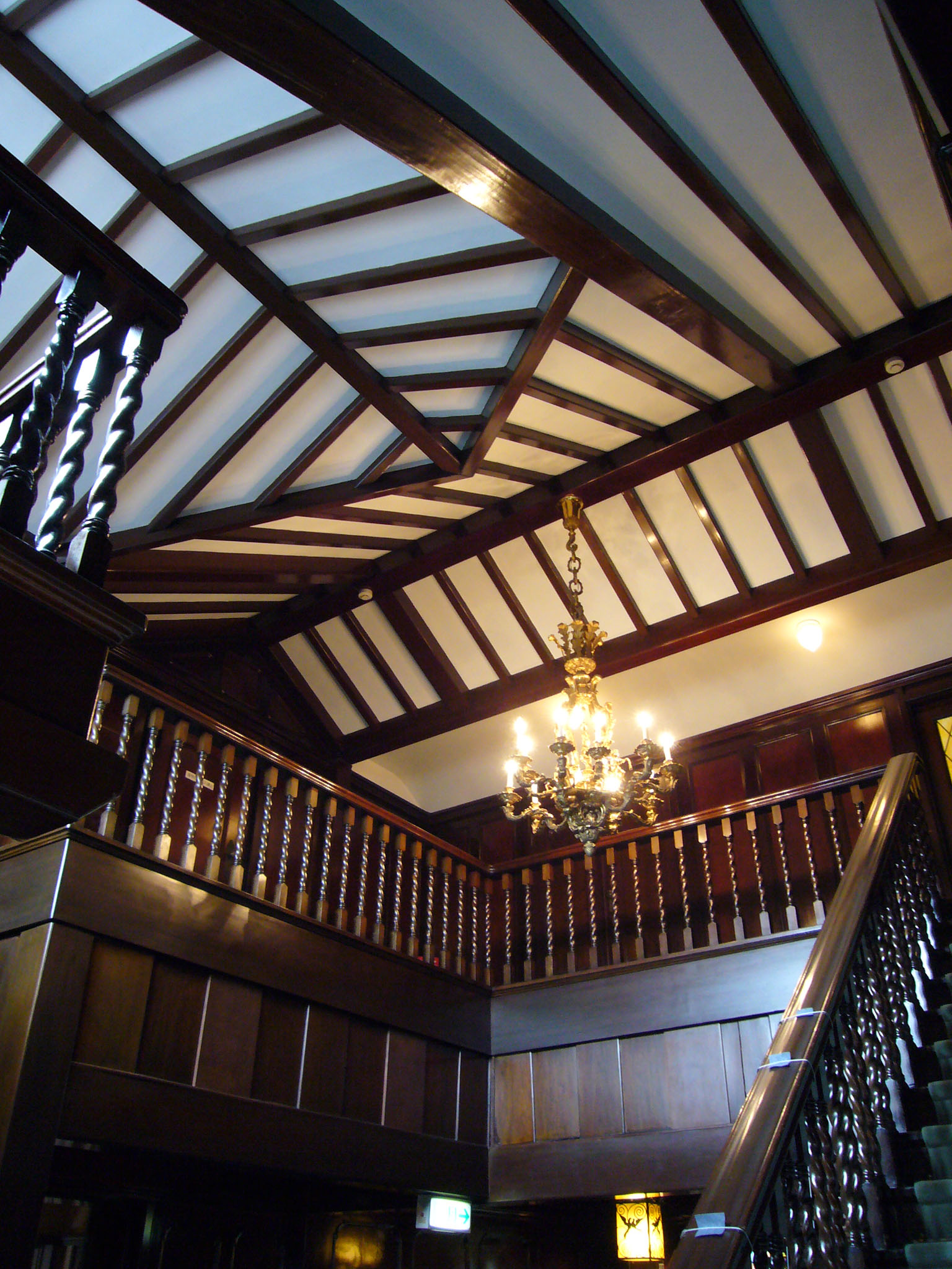 Asahi beer Oyamazaki Villa Museum in Oyamazaki-cho, Kyoto prefecture, Japan